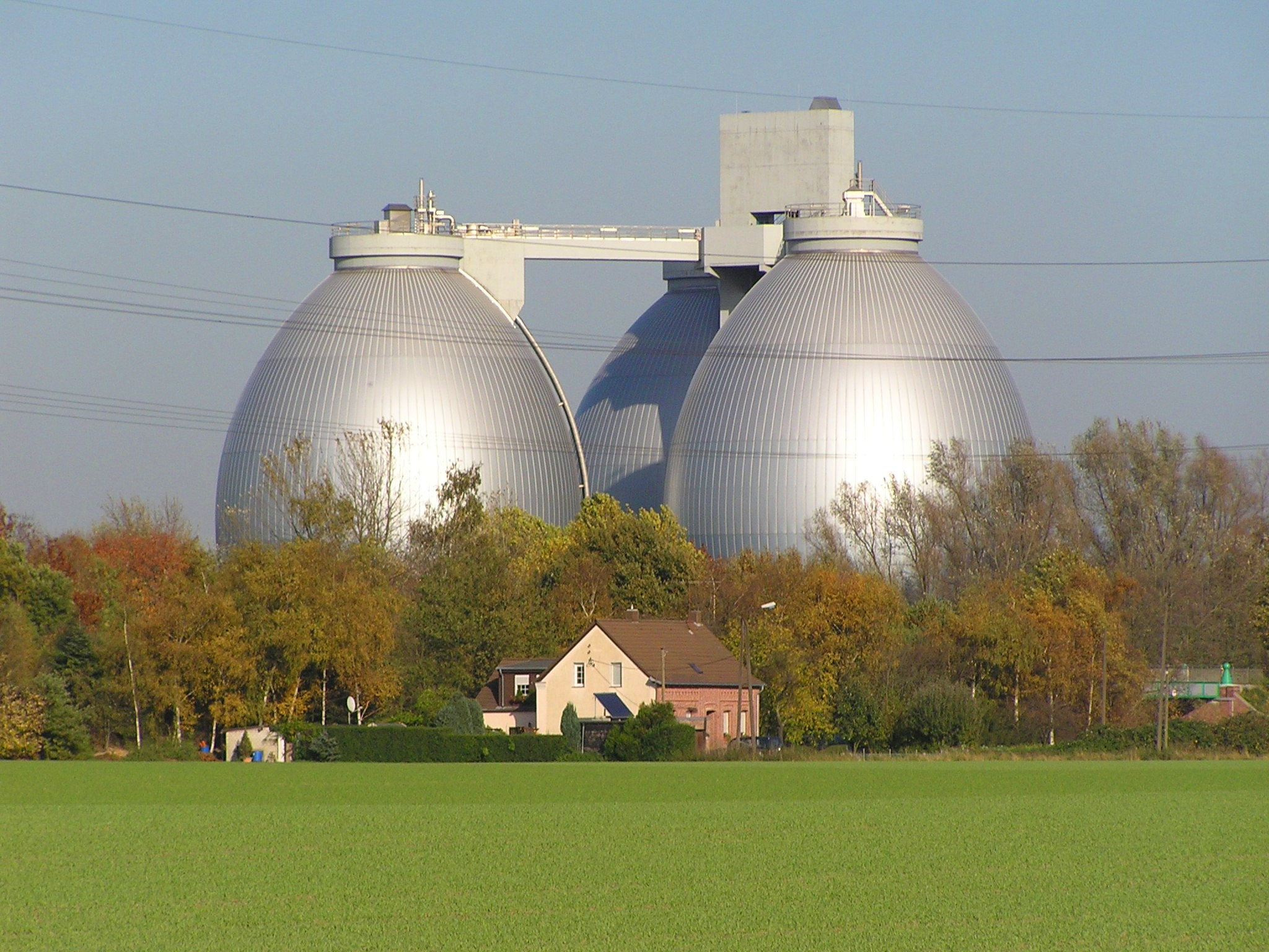 Digestion towers of the Wastewater treatment plant "Emschermündung" between Duisburg, Dinslaken and Oberhausen